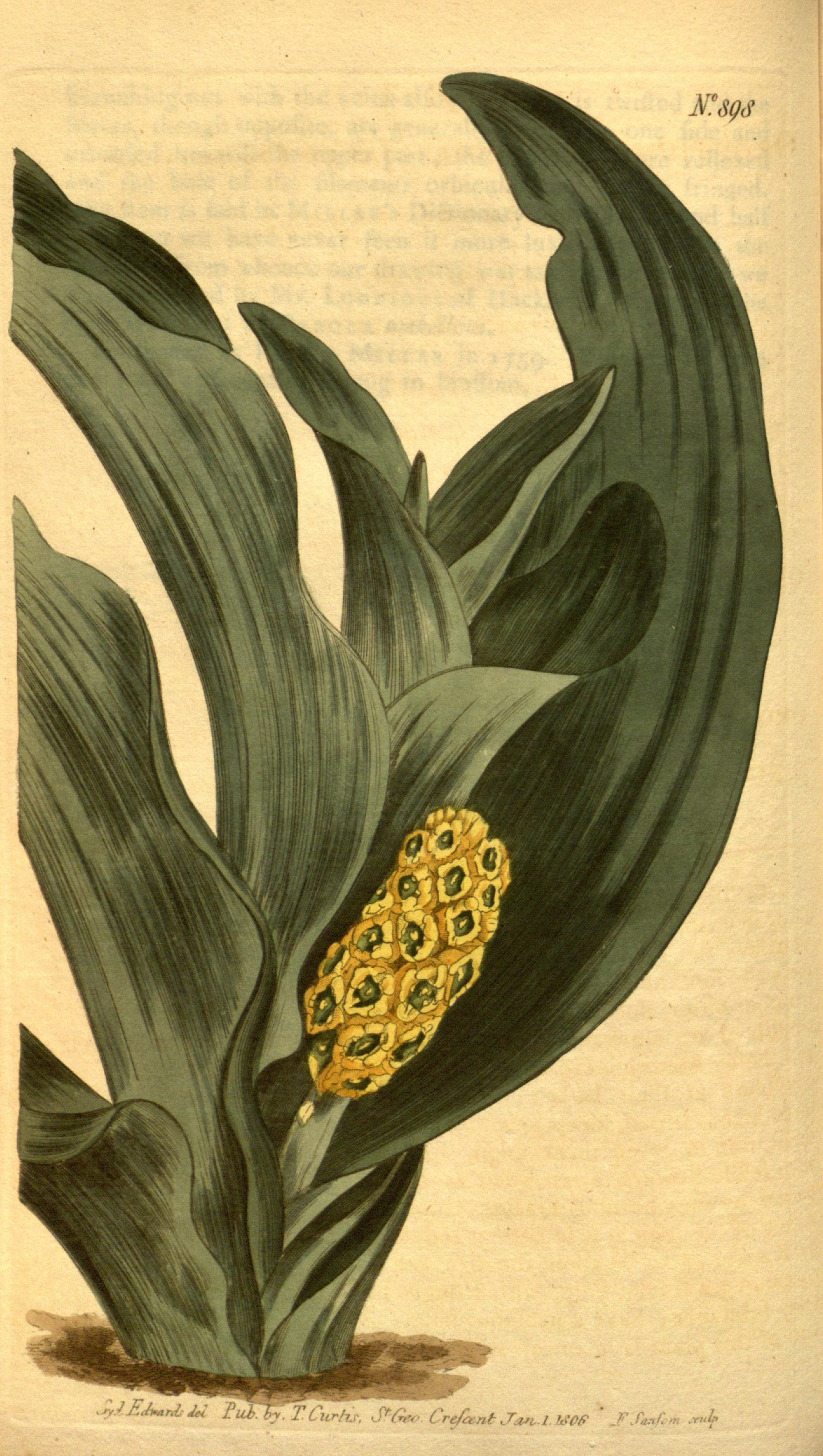 TCurh